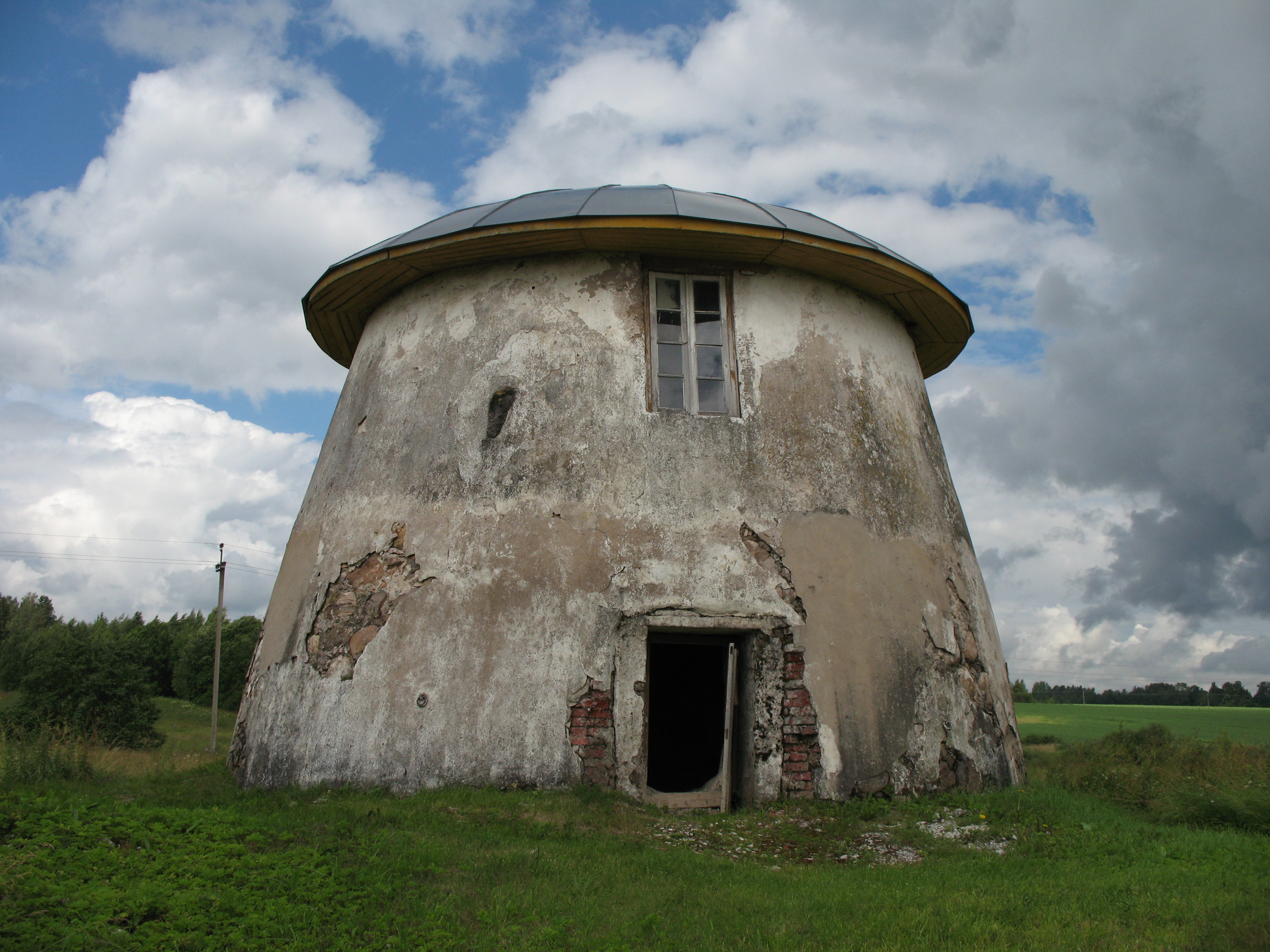 Kärner's windmill, Alatskivi parish, Estonia. Kärner's windmill was built in 1891 by the Kopli farmstead owner Friedrich Kärner. In Soviet times (after World War II) two floors of the mill were dismantled and it was used as a silage tower. Later it was used as cement storage building.